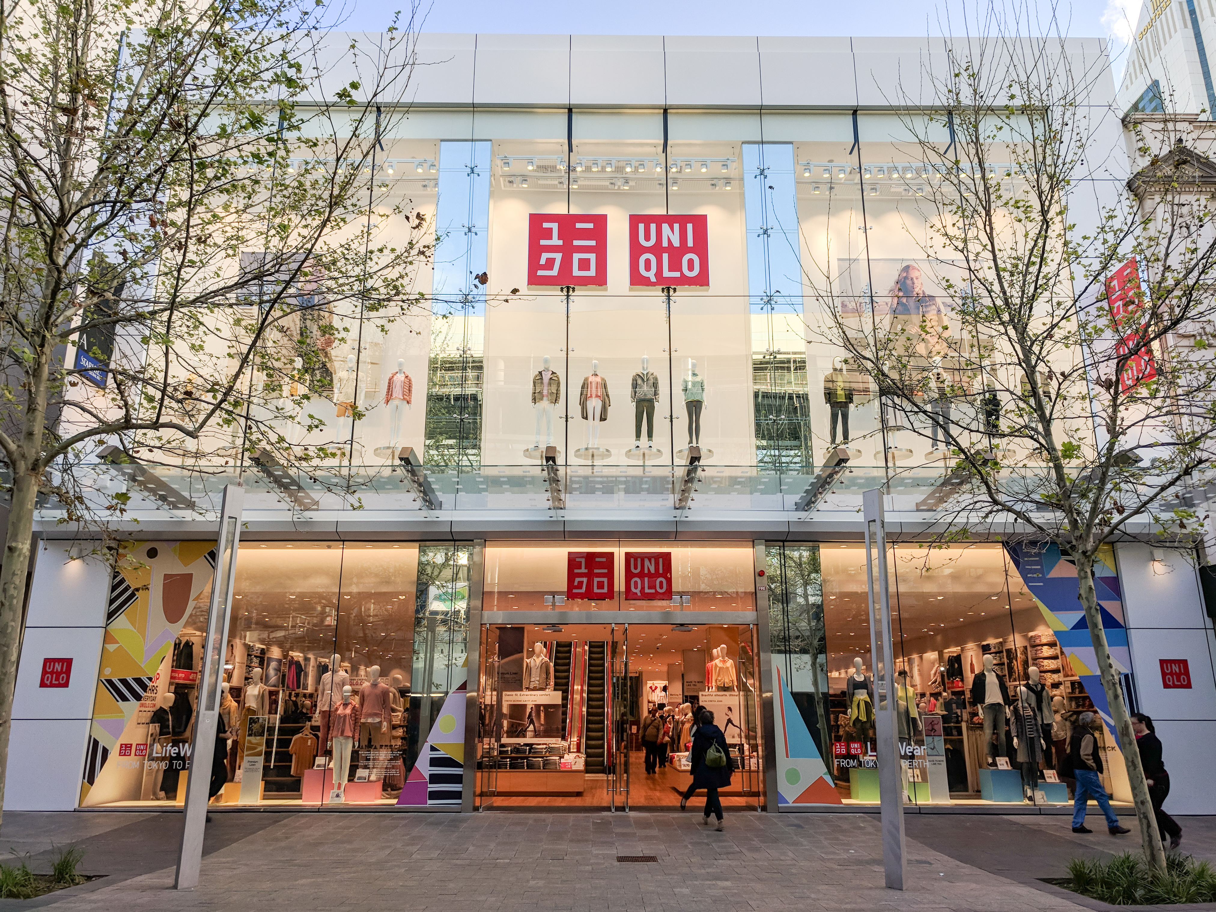 Uniqlo store located in the Murray Street mall, Perth